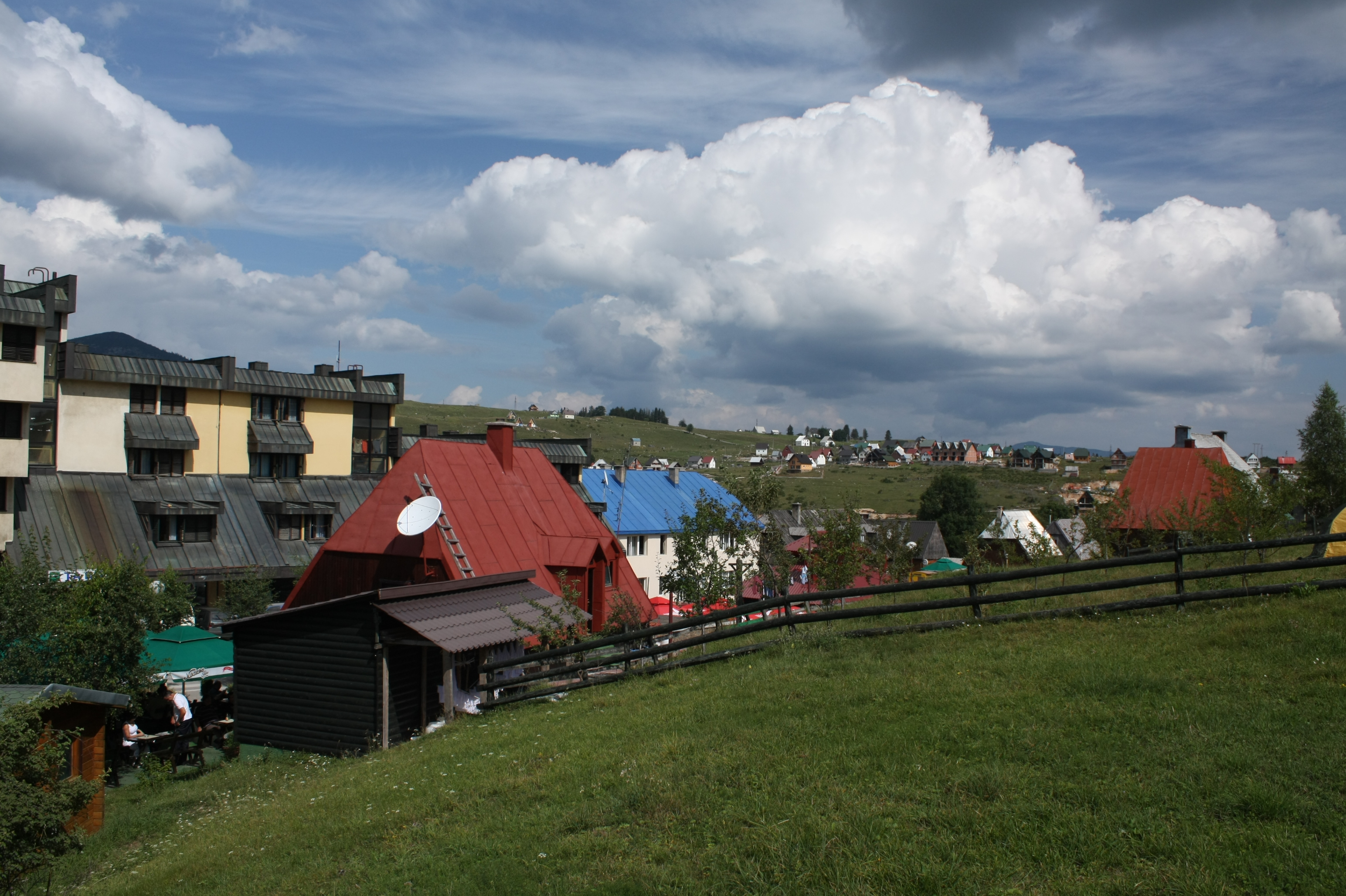 Žabljak, Montenegro - town centre